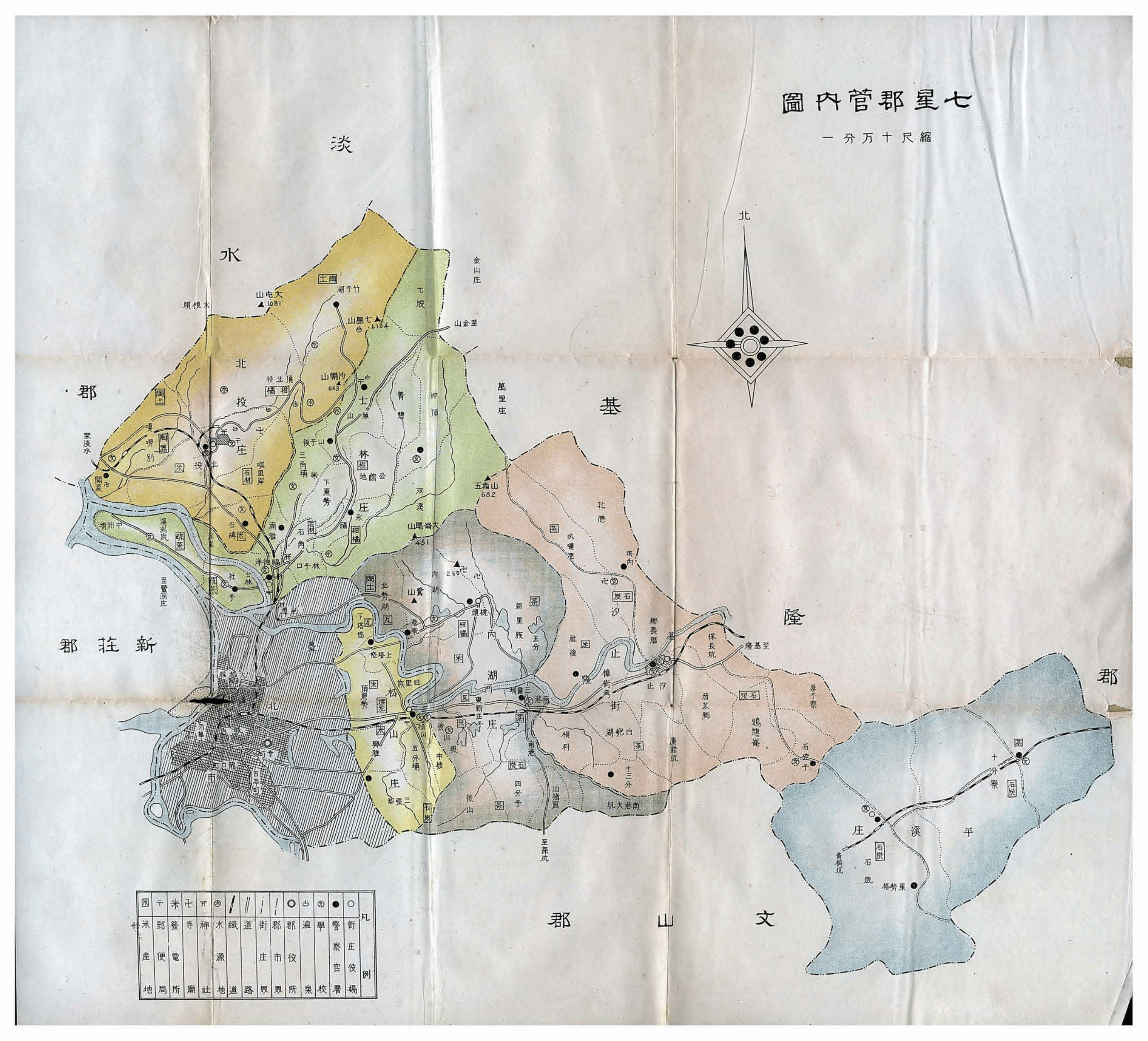 Map of Shichisei District, Taihoku in 1932